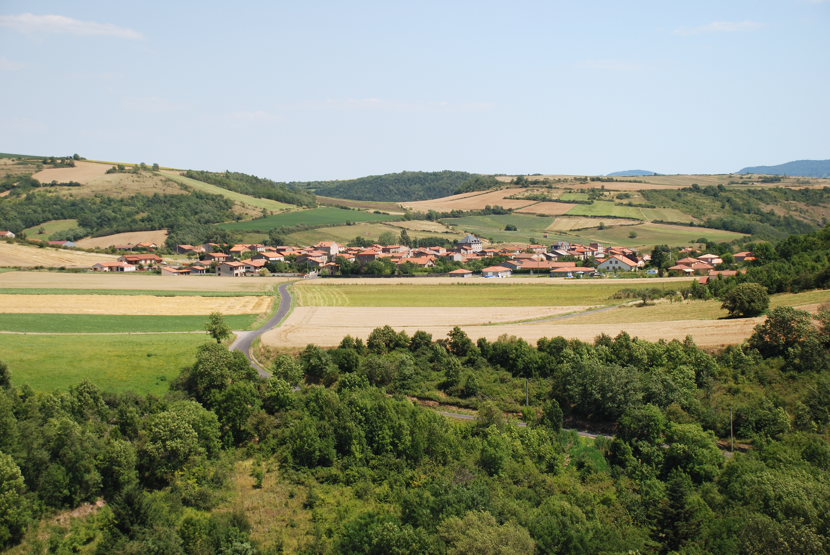 View of the villages of Saint-Julien (commune of Montaigut-le-Blanc, Puy-de-Dôme, France). Translations in other languages are welcome.